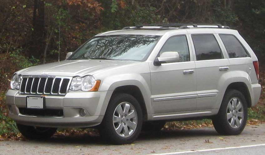 2008 Jeep Grand Cherokee photographed in College Park, Maryland, USA.